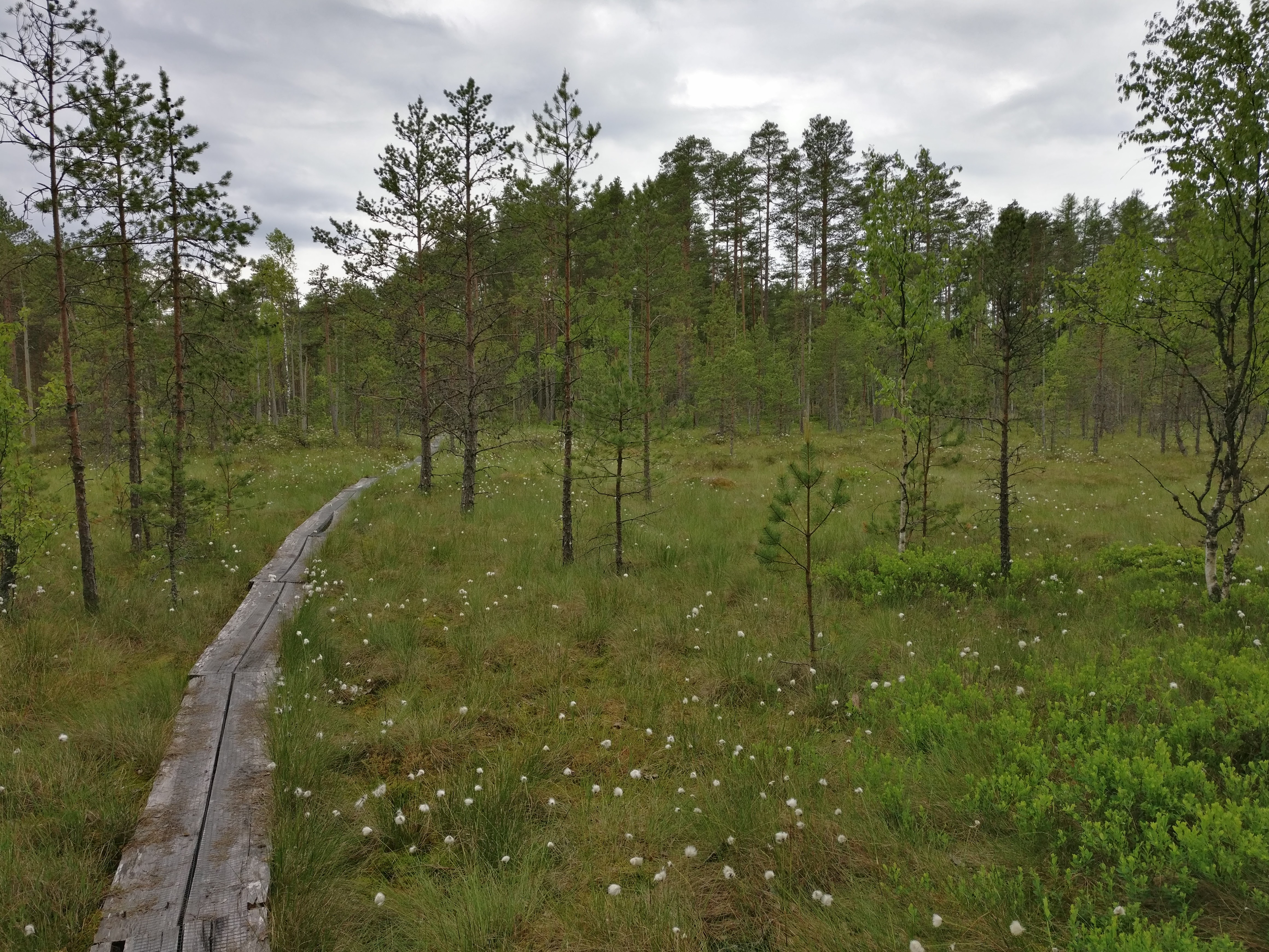 Boardwalk across the Teringi bog in Southern Estonia